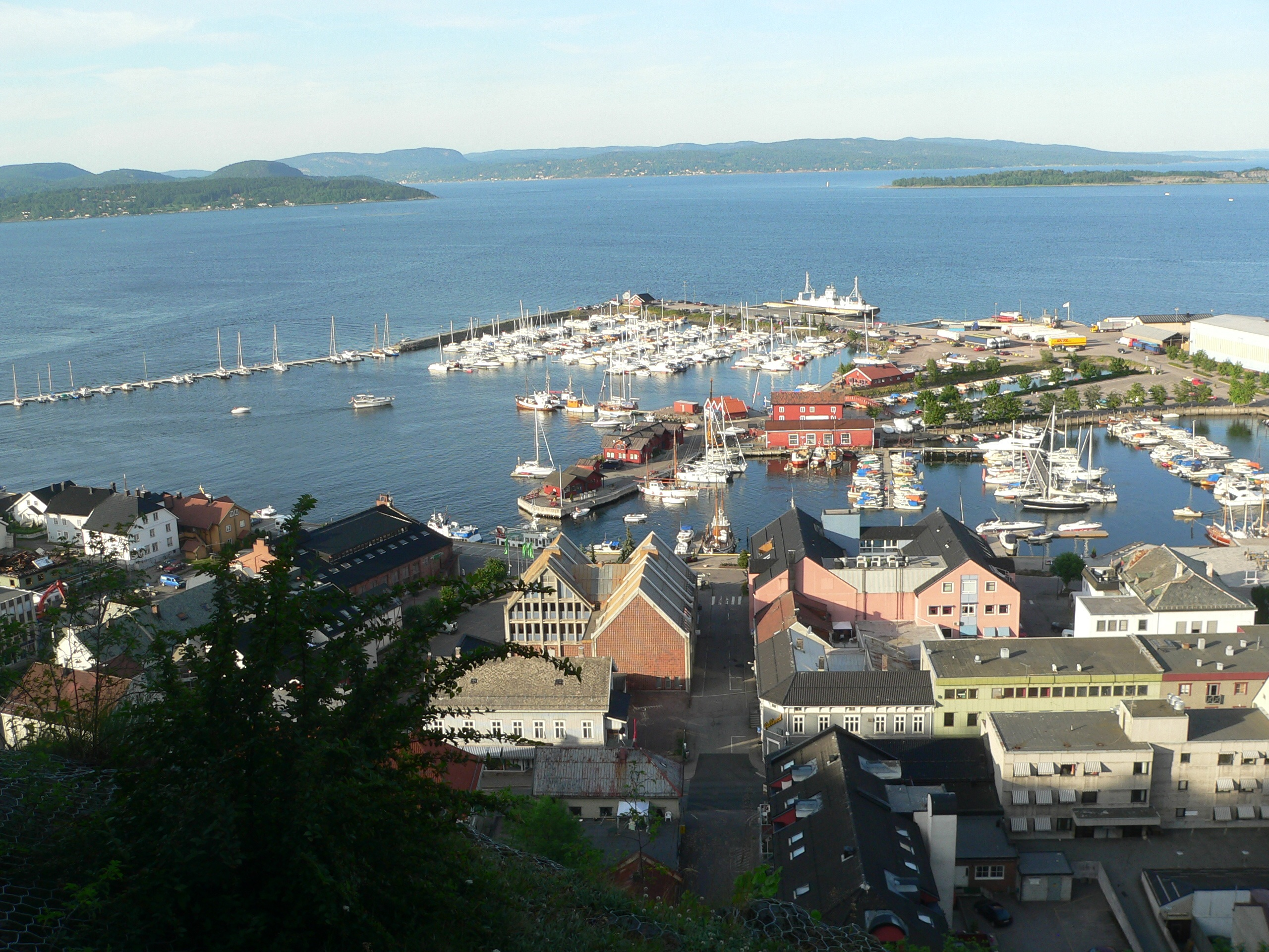 View of Holmestrand, Norway. June 2006